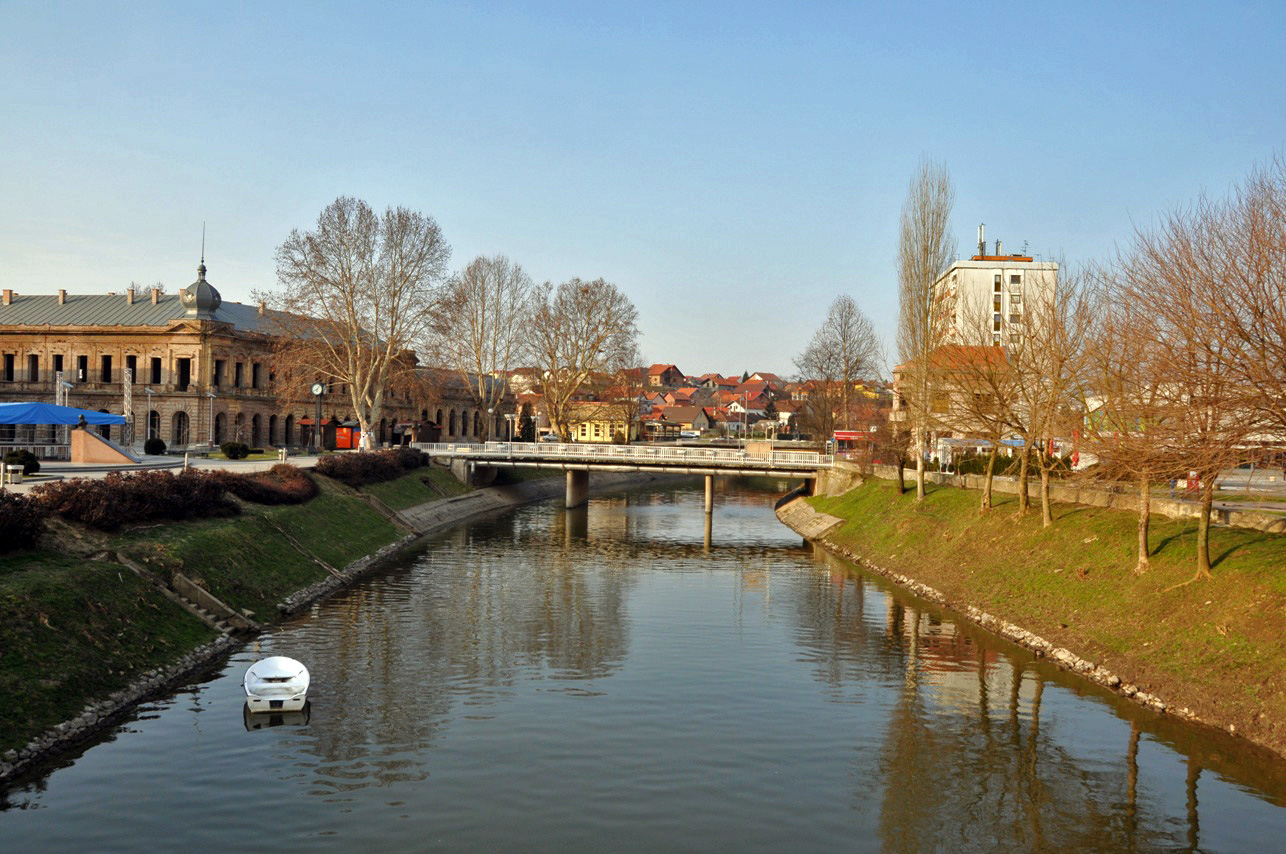 Vuka river, Vukovar.